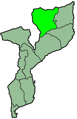 Map of Niassa Province, Mozambique